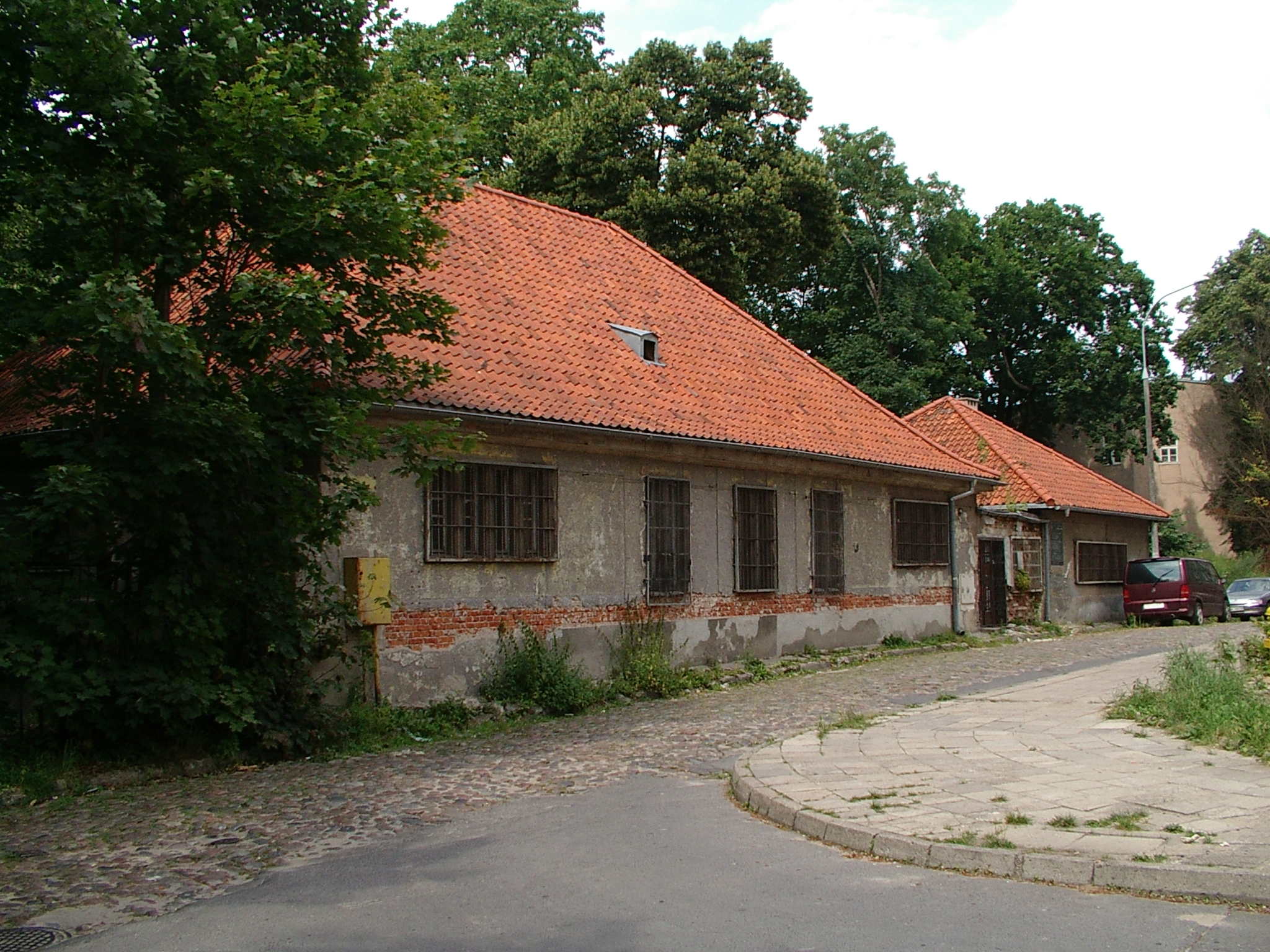 Bet Tahara - pre-funeral building by Erich Mendelsohn, Olsztyn, Poland